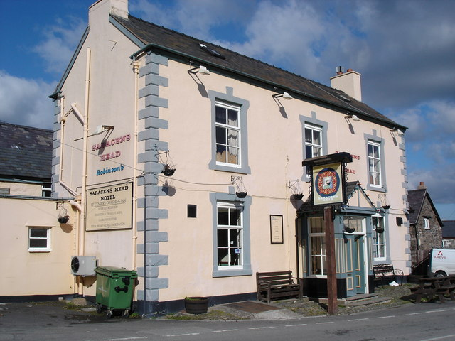 Saracens Head Llansannan. A popular public house in the village of Llansannan.